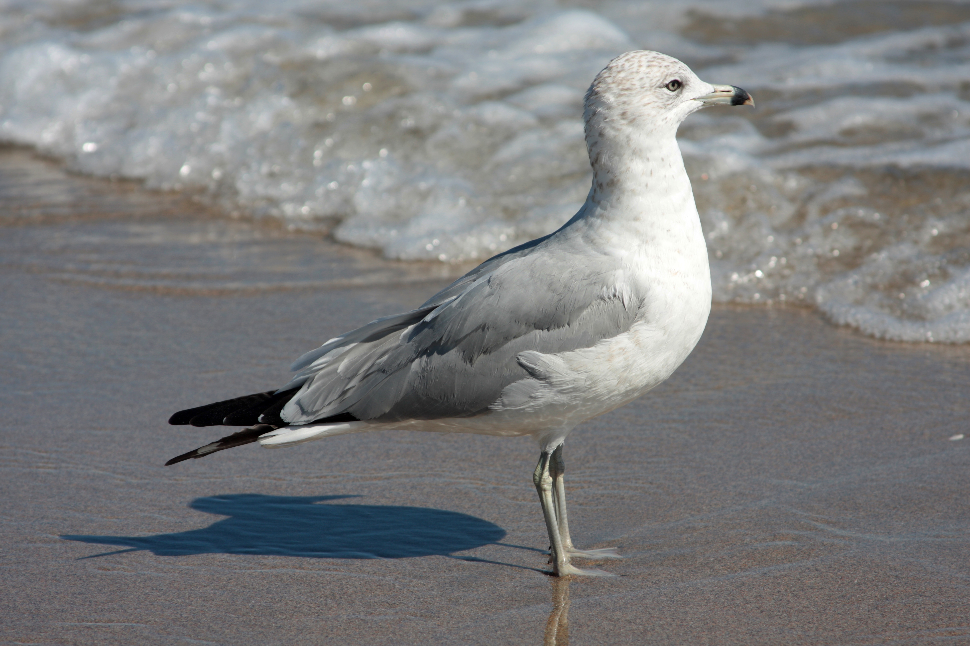 Portrait of a Ring-billed Gull, Boca Raton, Florida.